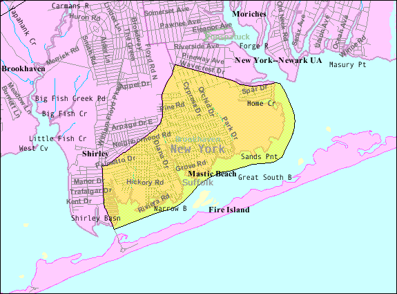 U.S. Census 2000 reference map for Mastic Beach